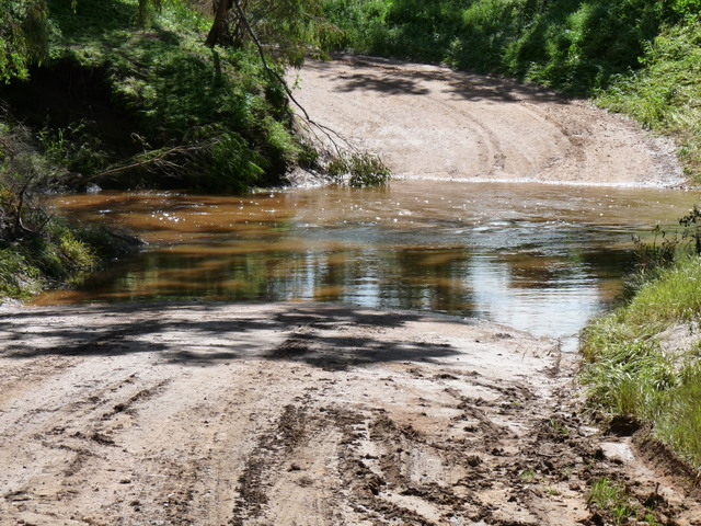 The Wasley Rd ford in early spring on the Light River downstream of Paddys Crossing, between Two Wells and Mallala, South Australia